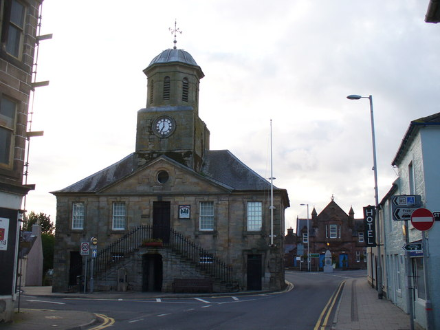 Sanquhar Tolbooth 18th century building, following a William Adam design. It has seen life as town hall, school and prison before becoming today's local museum. In the distance is the current Town Hall.